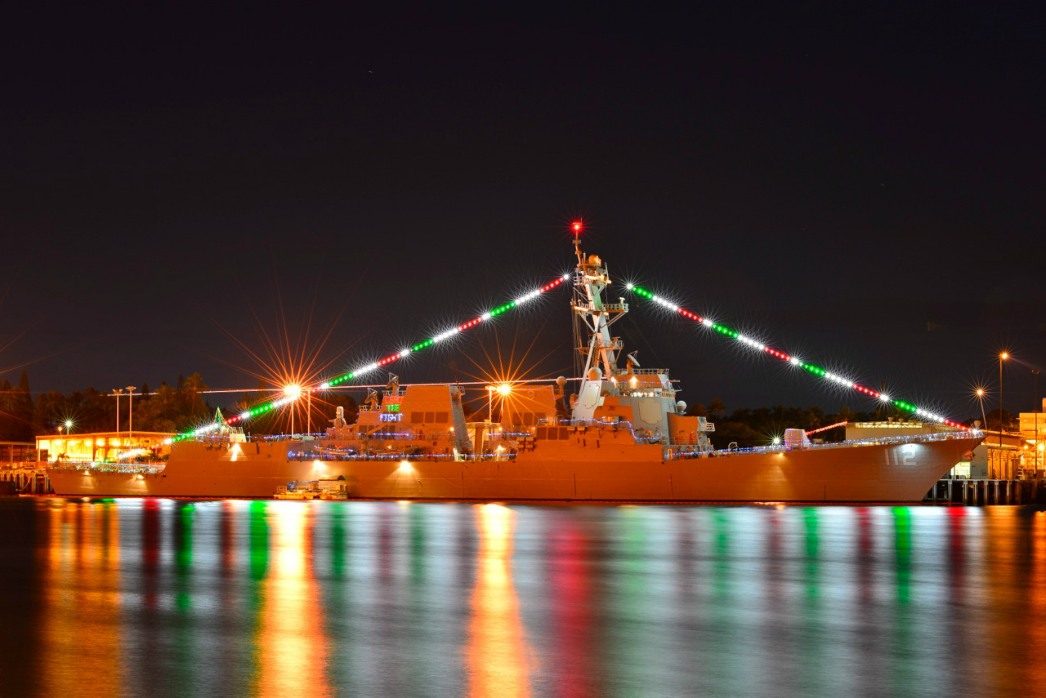 The U.S. Navy guided-missile destroyer USS Michael Murphy (DDG-112) is moored pierside during the annual Pearl Harbor Festival of Lights at Pearl Harbor, Hawaii (USA).